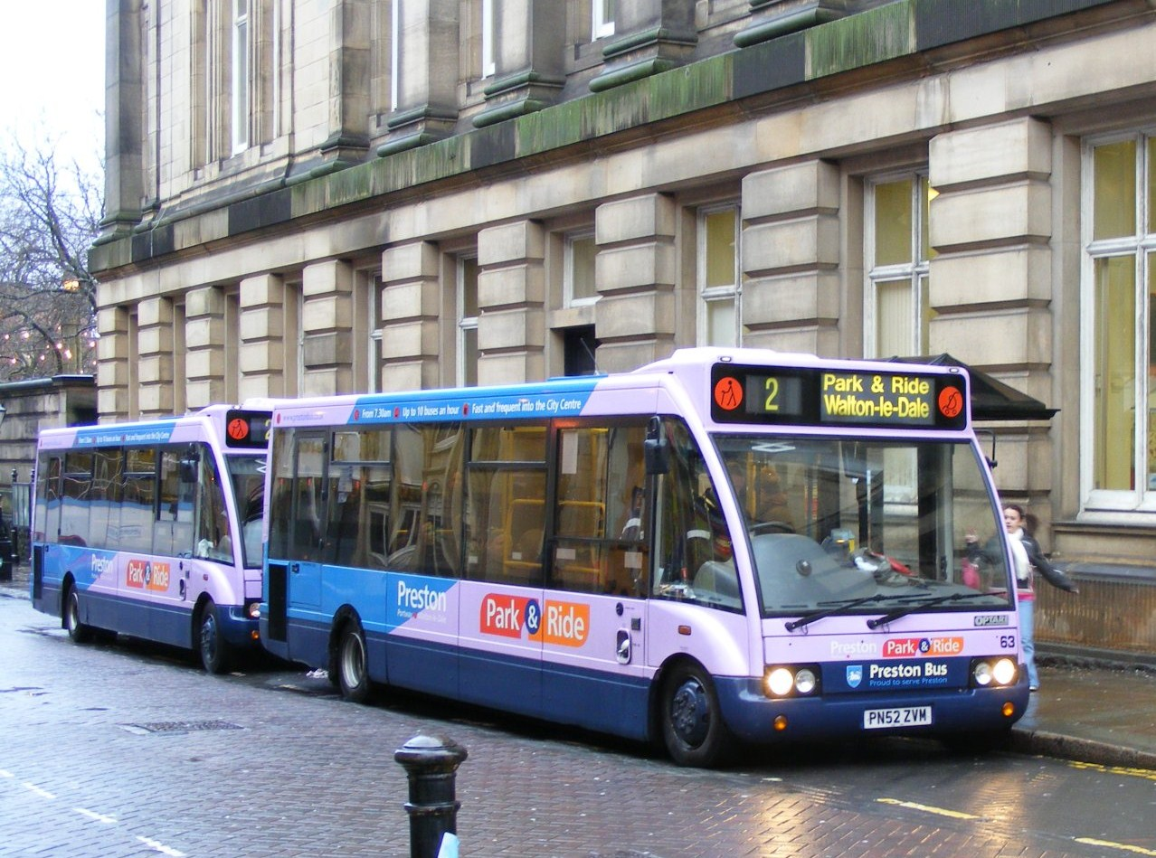 Preston Bus 63 PN52 ZVW Optare Solo on Park and Ride service